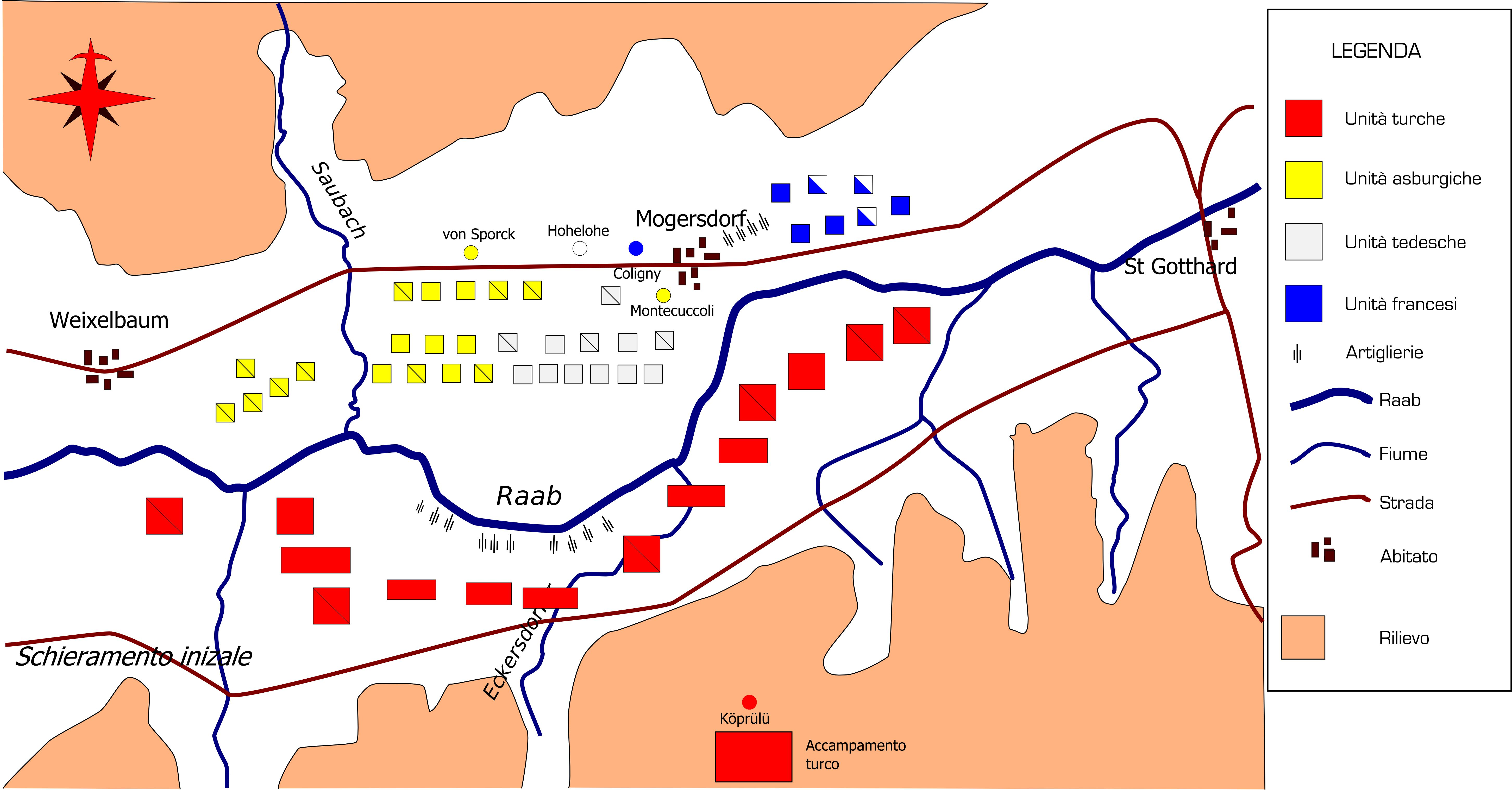 Starting deployement in battle of St Gotthard